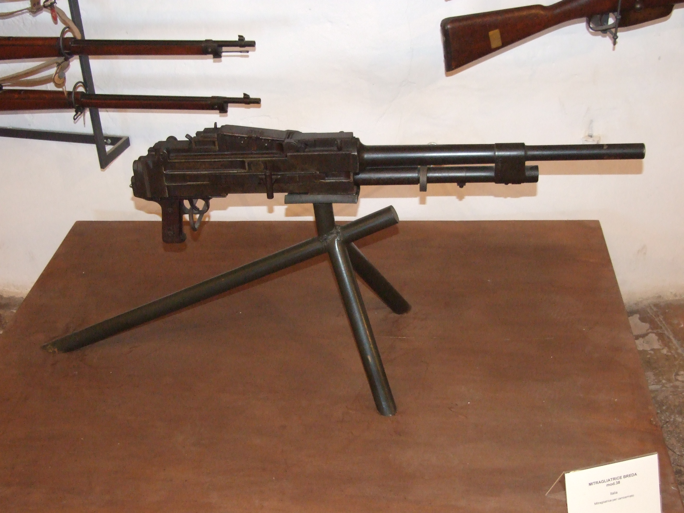 A Breda Mod. 38 tank machine gun, without the top-mounted magazine, taken inside Forte di San Leo